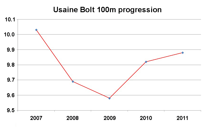 Usain Bolt 100m Progression